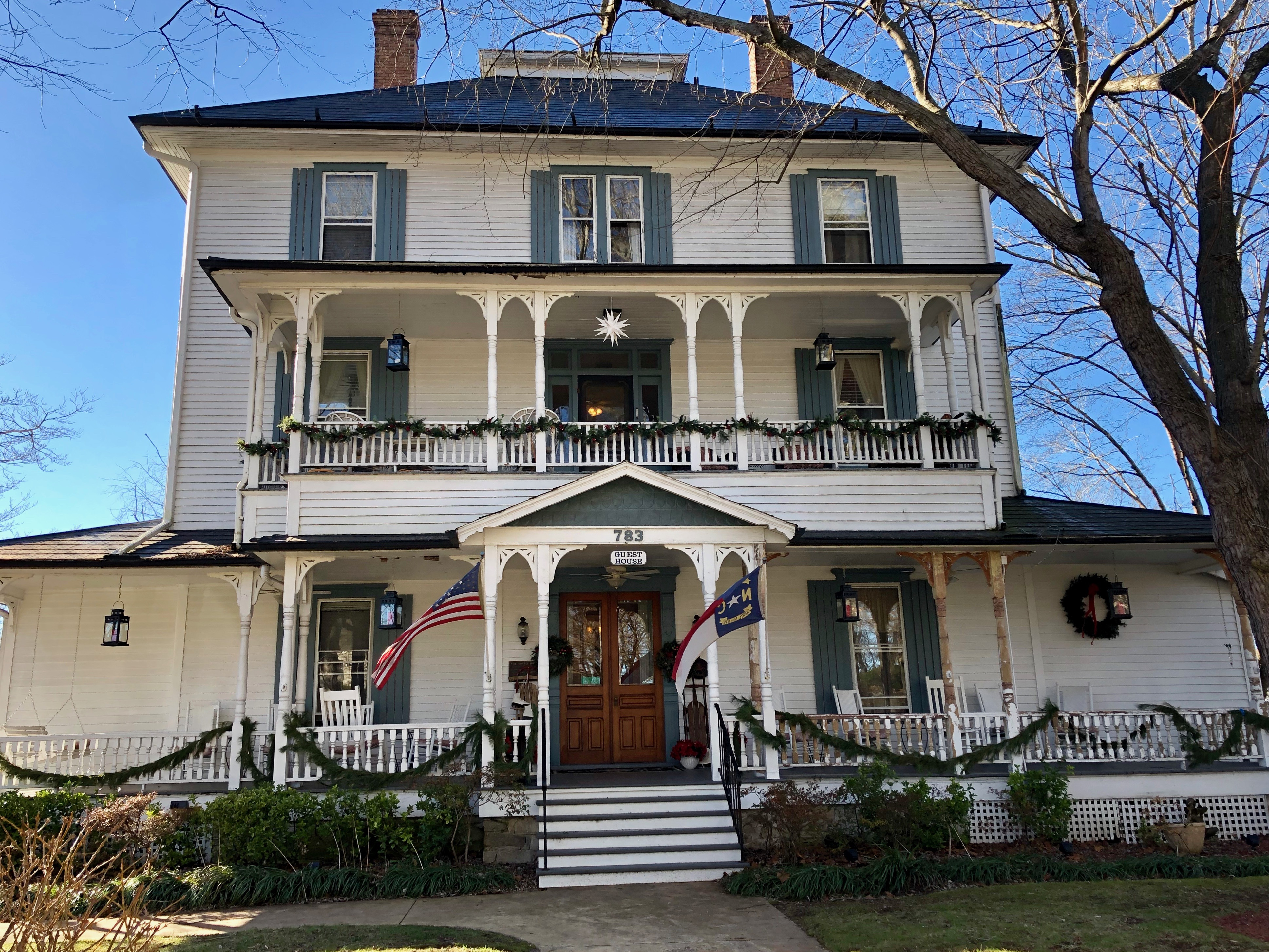 The Waverly Hotel was constructed in 1898 in Hendersonville, North Carolina, and listed on the National Register of Historic Places in 1989.